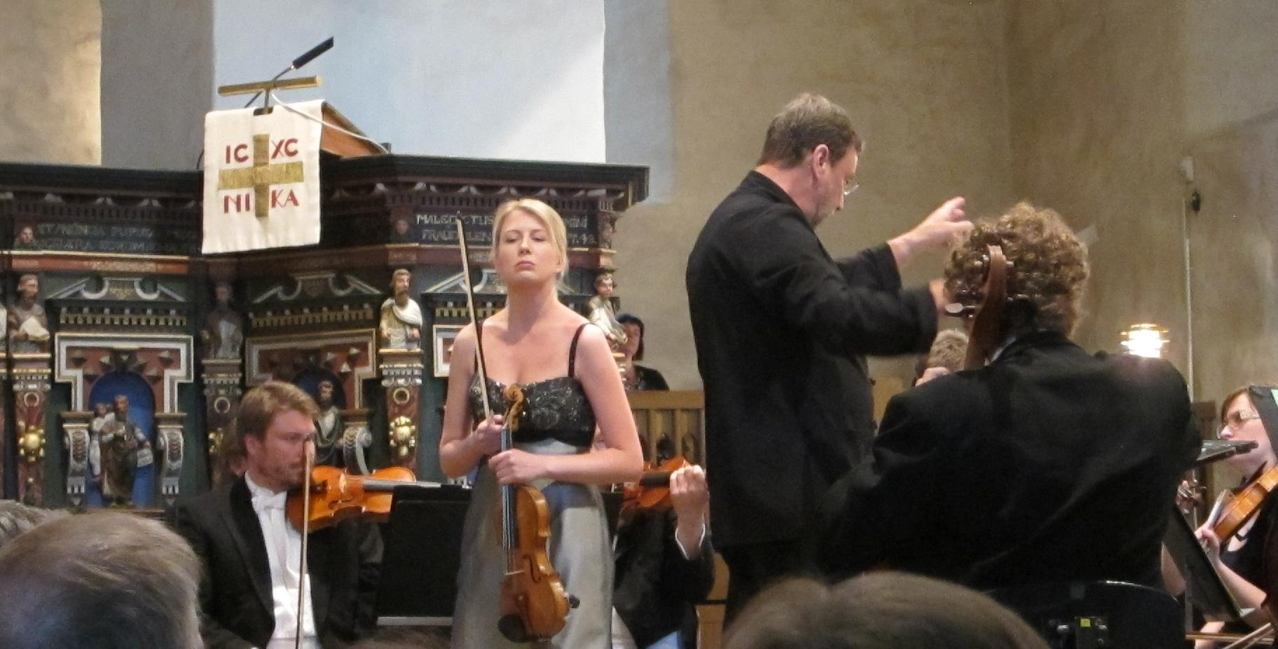 The Lahti Symphony Orchestra with conductor Okko Kamu and violinist Elina Vähälä performing at the Naantali Music Festival in Naantali Church, Naantali, Finland. Programme: Aulis Sallinen: Mauermusik Jean Sibelius: Violin Concerto in D minor, Op. 47 Johannes Brahms: Symphony No 2